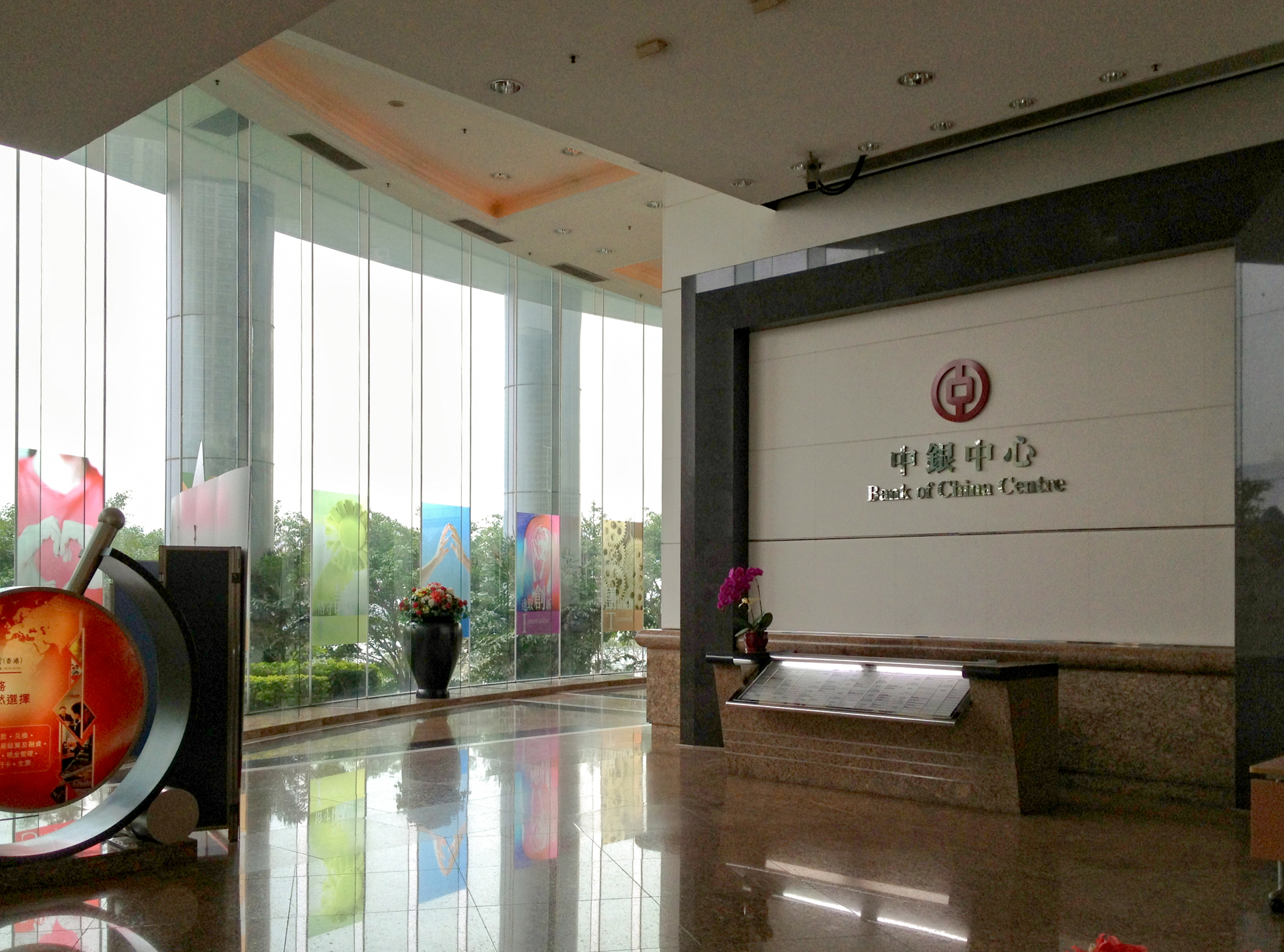 Bank of China Centre Lobby